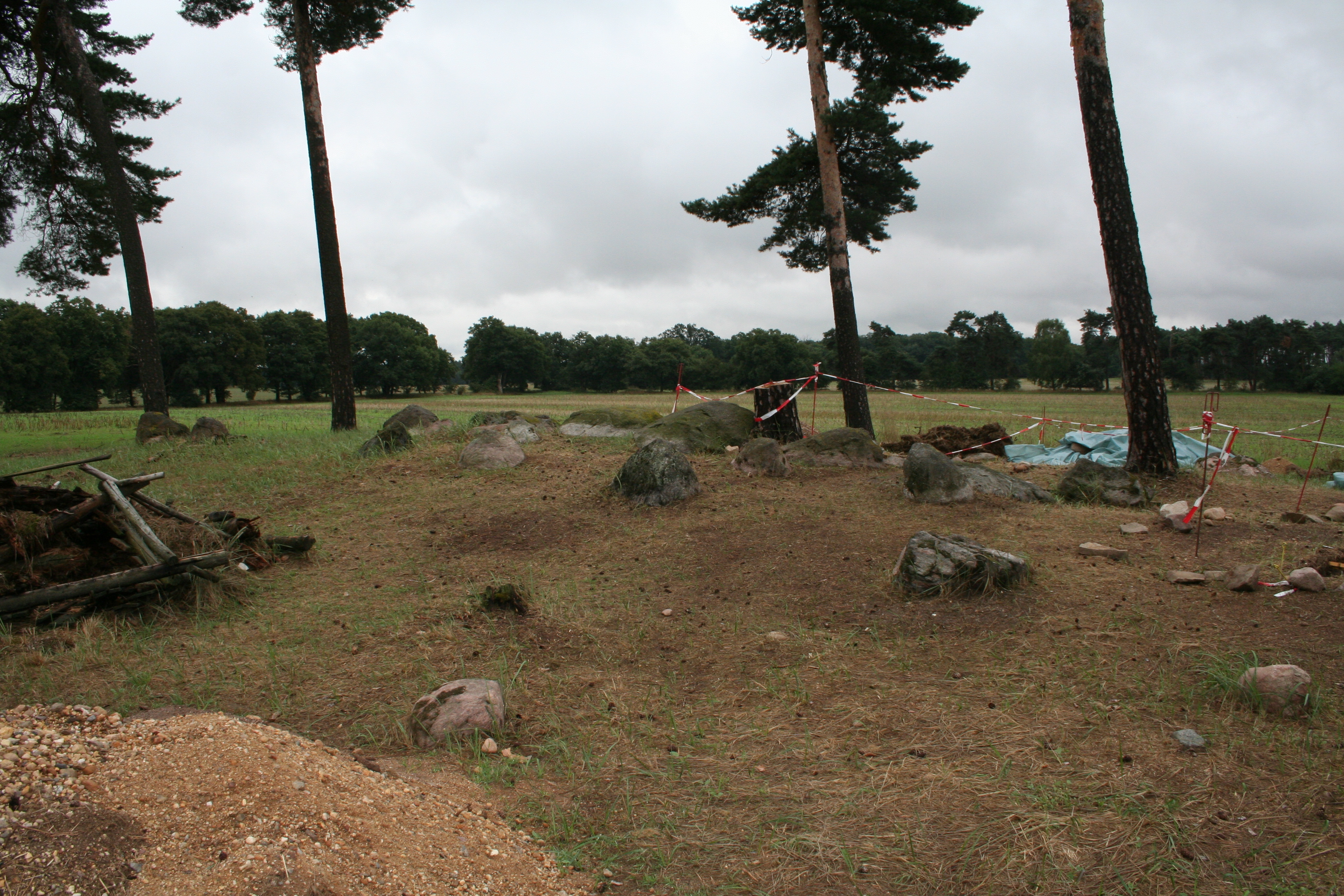 The megalithic tomb Küsterberg near Hundisburg during the excavation 2010